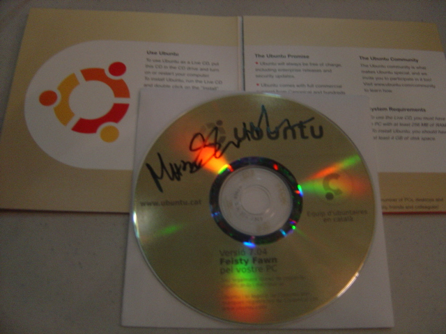 Catalan version of Ubuntu 7.04 "Feisty Fawn" signed by Mark Shuttleworth